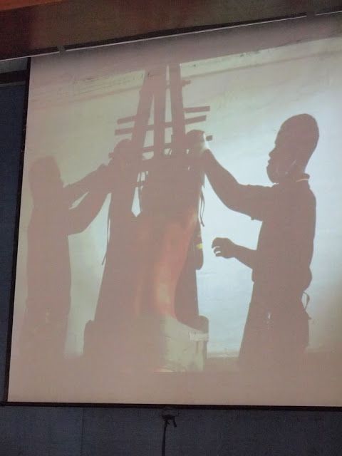 sebat